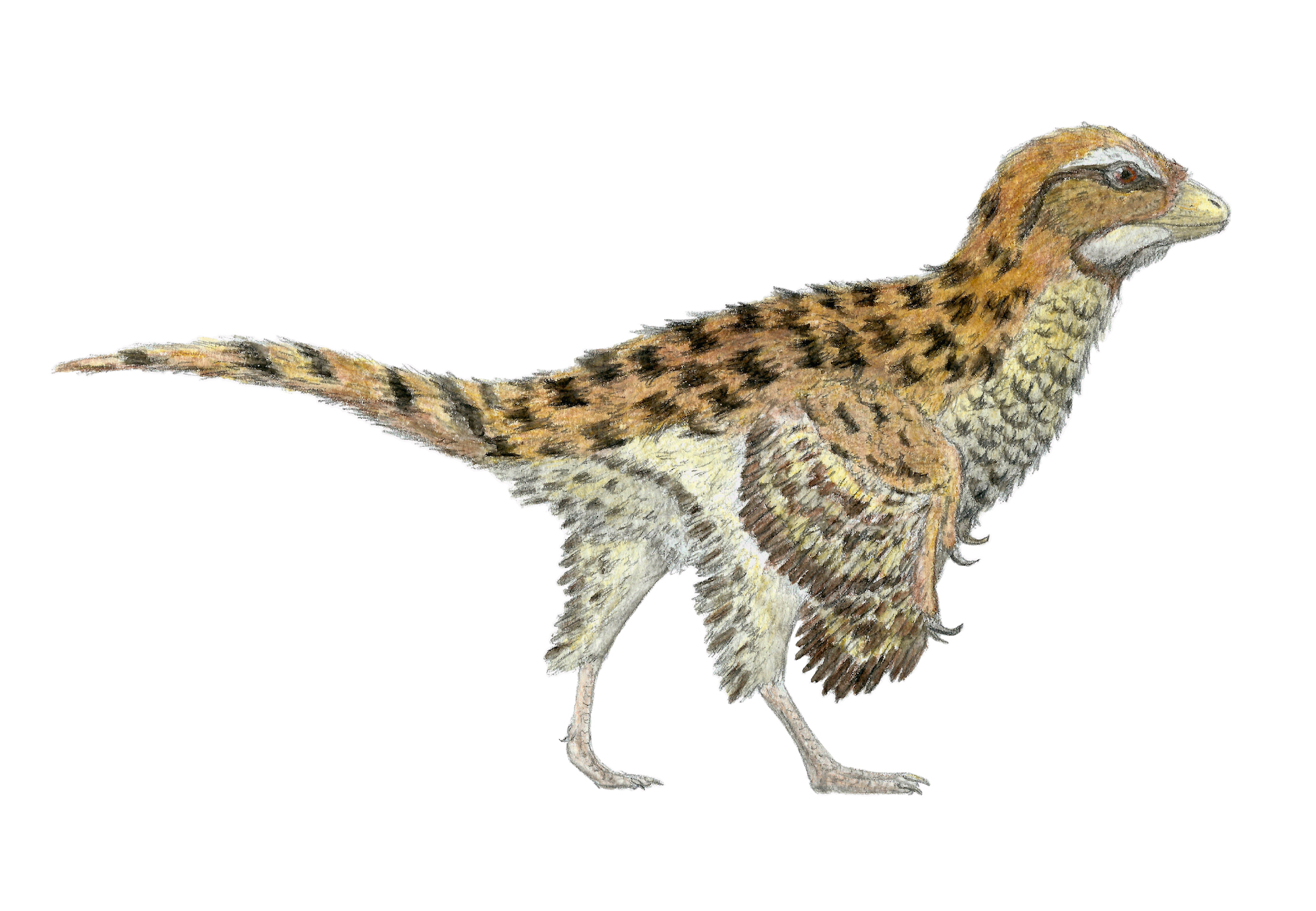 Eosinopteryx brevipenna, a basal paravian theropod from northern China, which lived 160 mya. Based on this article.